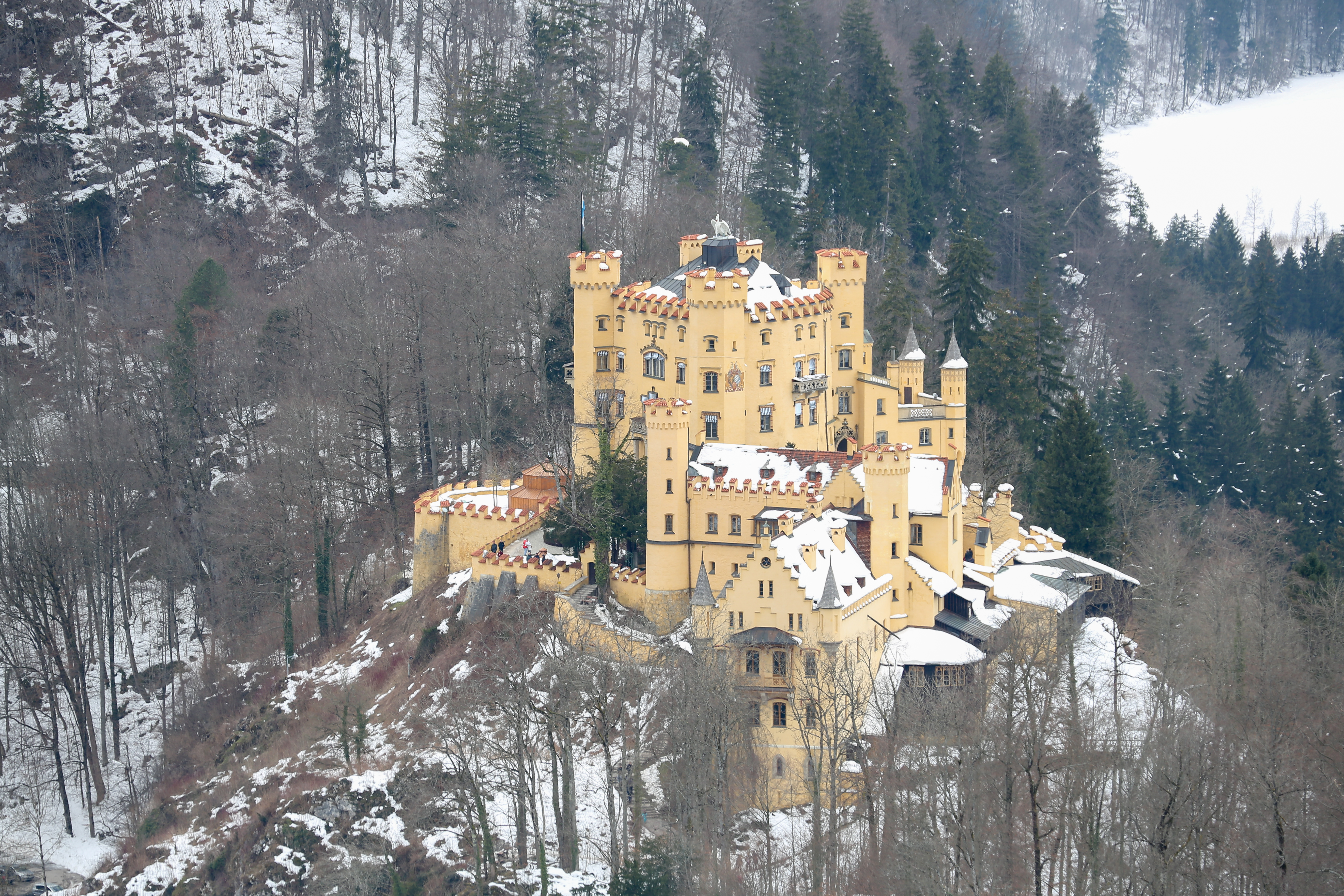 Hohenschwangau, Schwangau, Germany